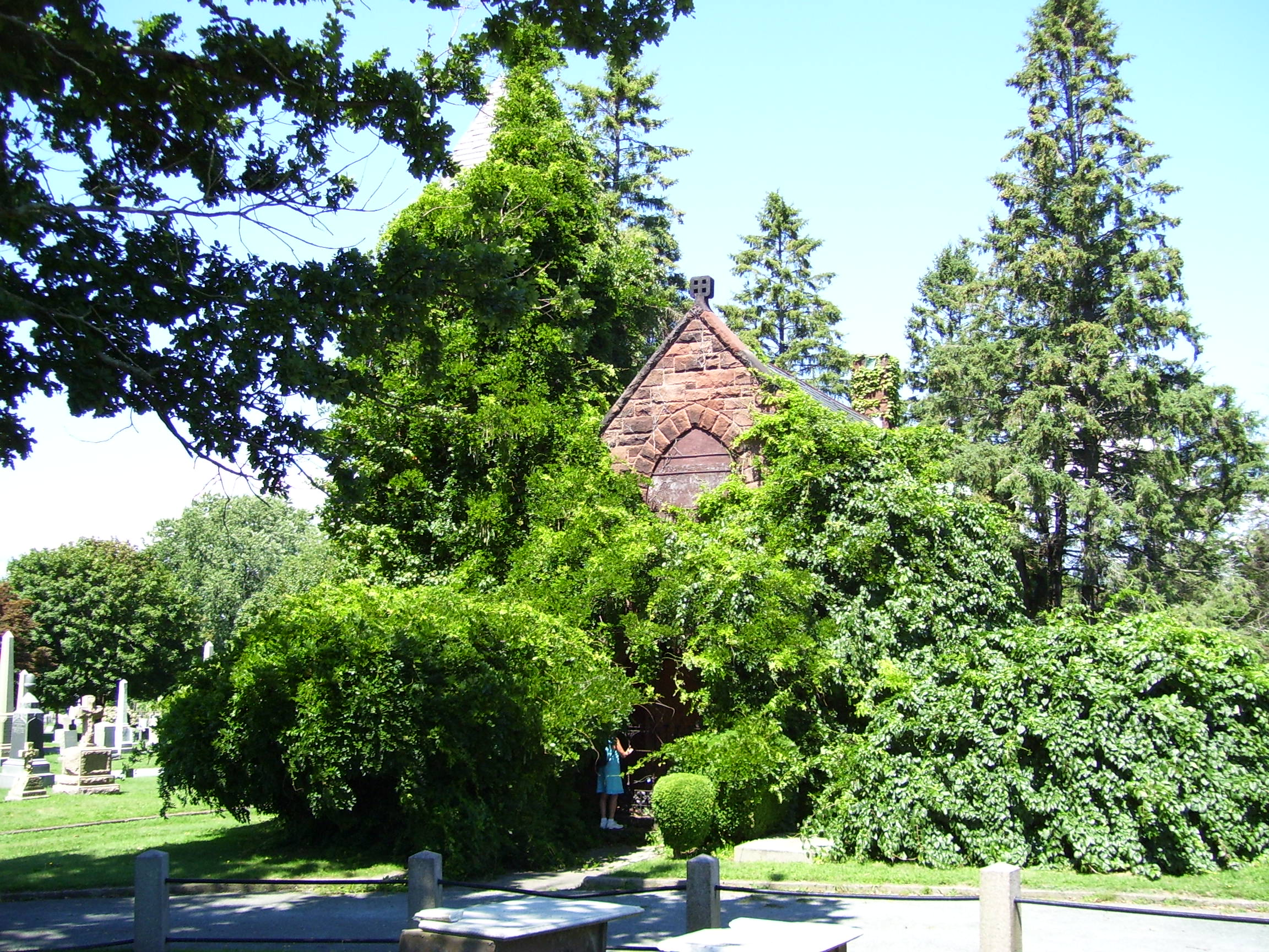 My 2008 photo of building at Common Burying Ground in Newport Rhode Island.